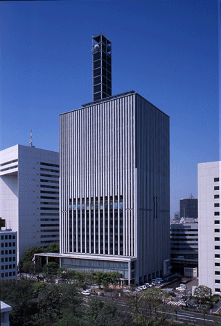 Kudan 3rd joint government building, and Chiyoda city office main building